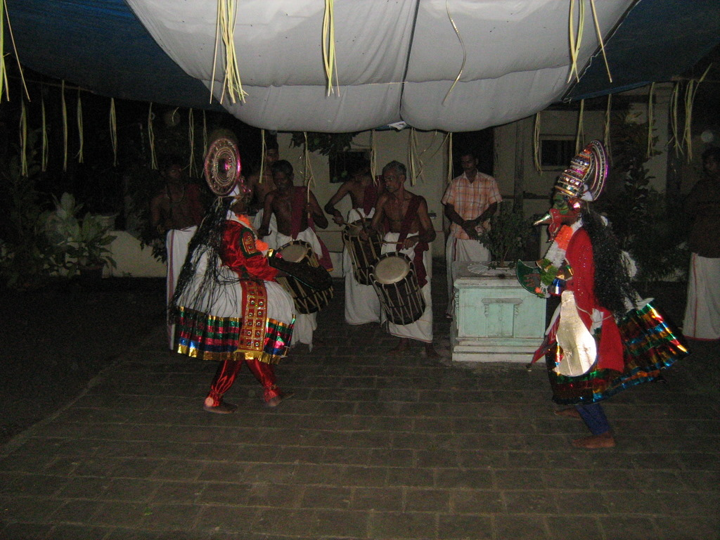 Garudan Parava